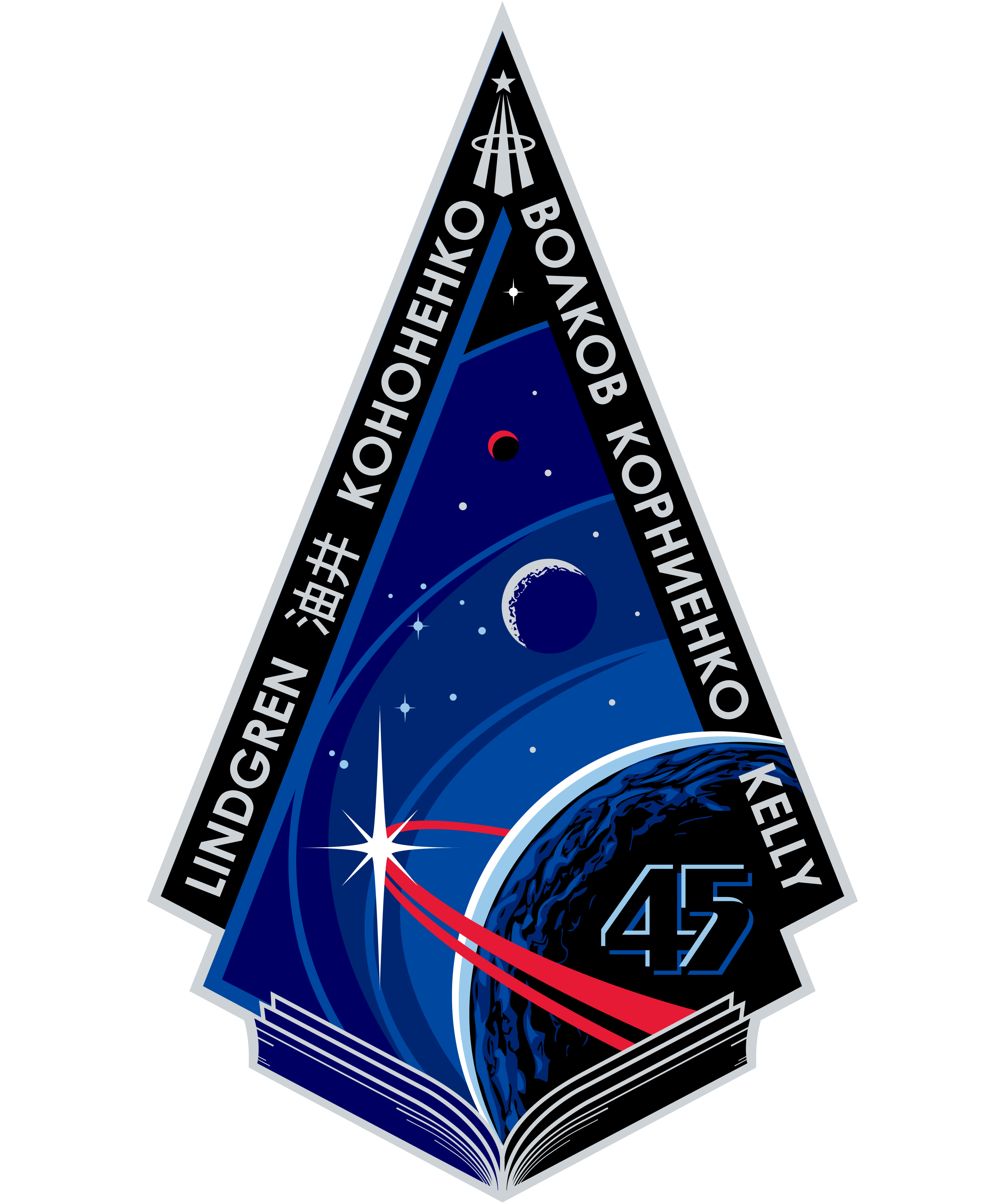 The Expedition 45 crew will conduct its journey of exploration and discovery from a summit whose foundation was built by past generations of pioneers, scientists, engineers and explorers. This foundation is represented by the book of knowledge at the bottom of the patch. Curves radiate from the book representing the flow of knowledge - and the hard work, sacrifice and innovation that makes human spaceflight possible. The pages written during Expedition 45 will serve to benefit humanity on Earth and in space. The International Space Station is represented by a single bright star soaring over the Earth, illuminating a path to future, more distant destinations.